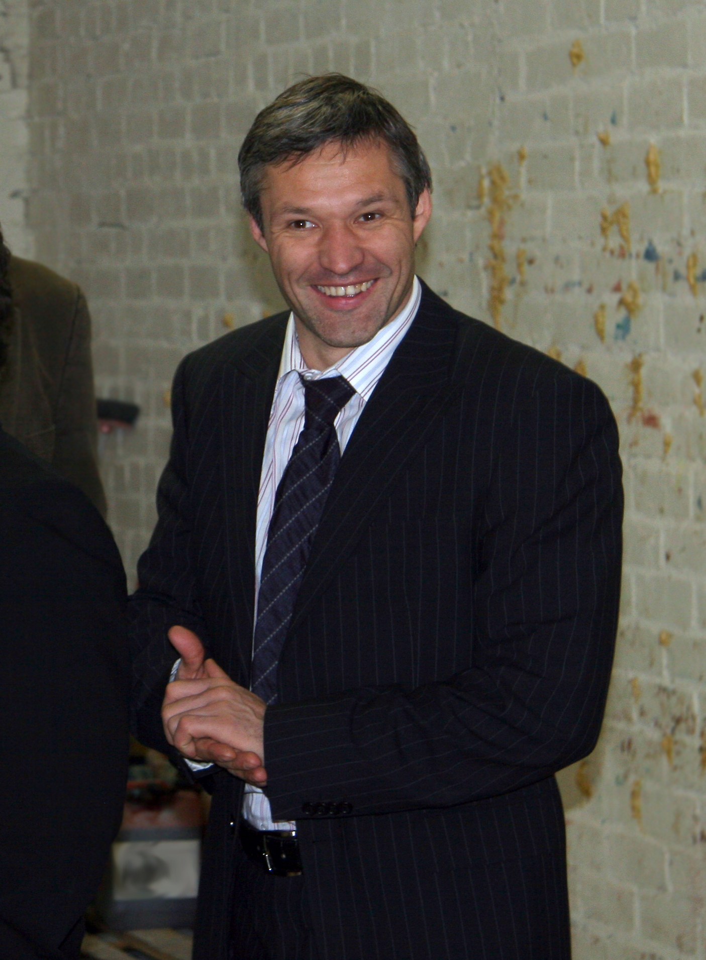 Erki Nool